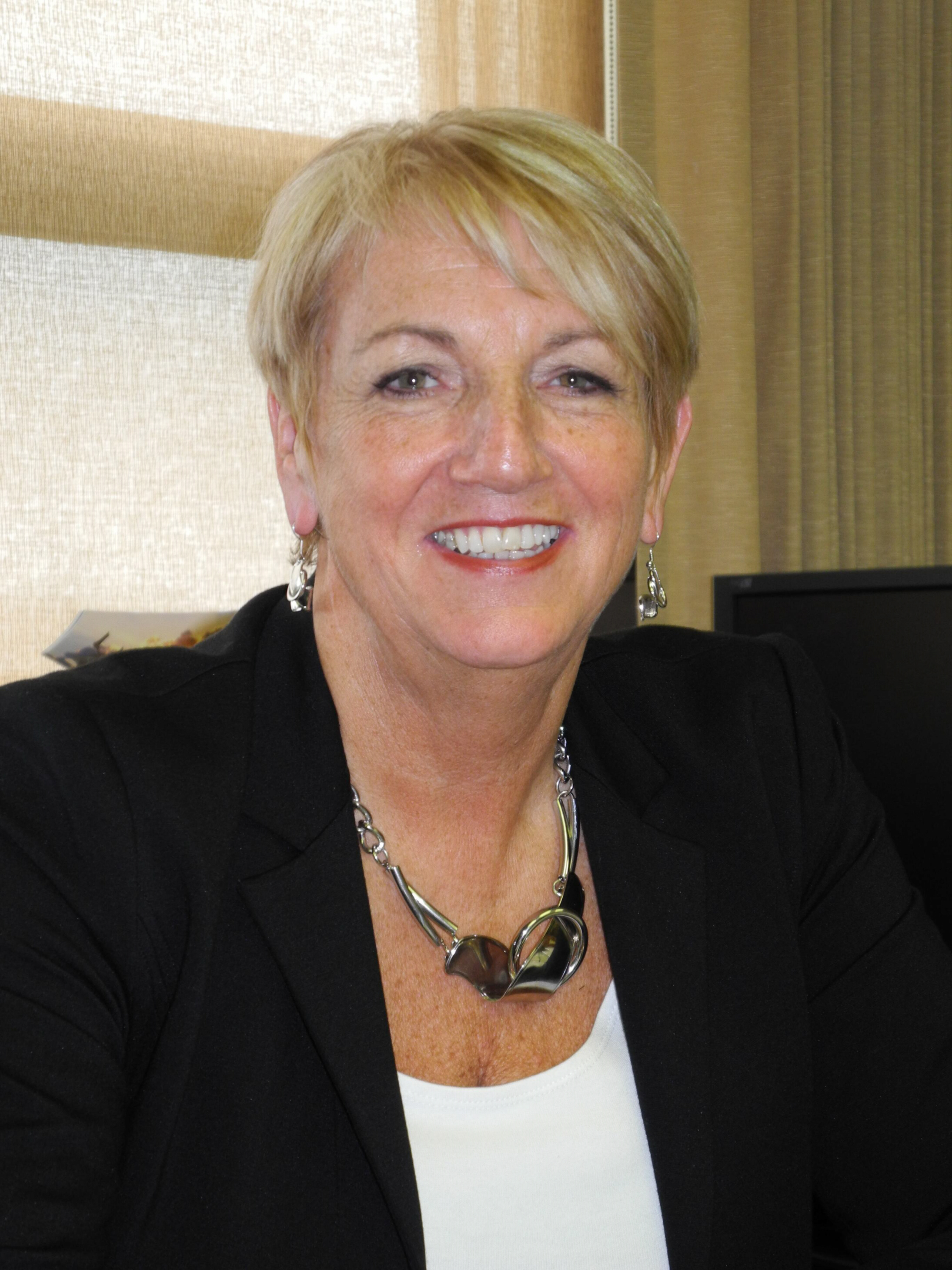 The Honourable Kathy Dunderdale, MHA, 10th Premier of Newfoundland and Labrador, Leader of the Progressive Conservative Party of Newfoundland and Labrador